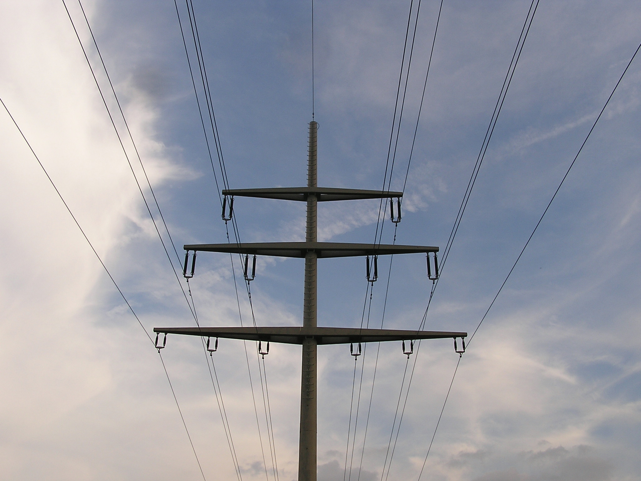 Concrete pylon as three-level pylon for 110,000 and 20,000 Volts